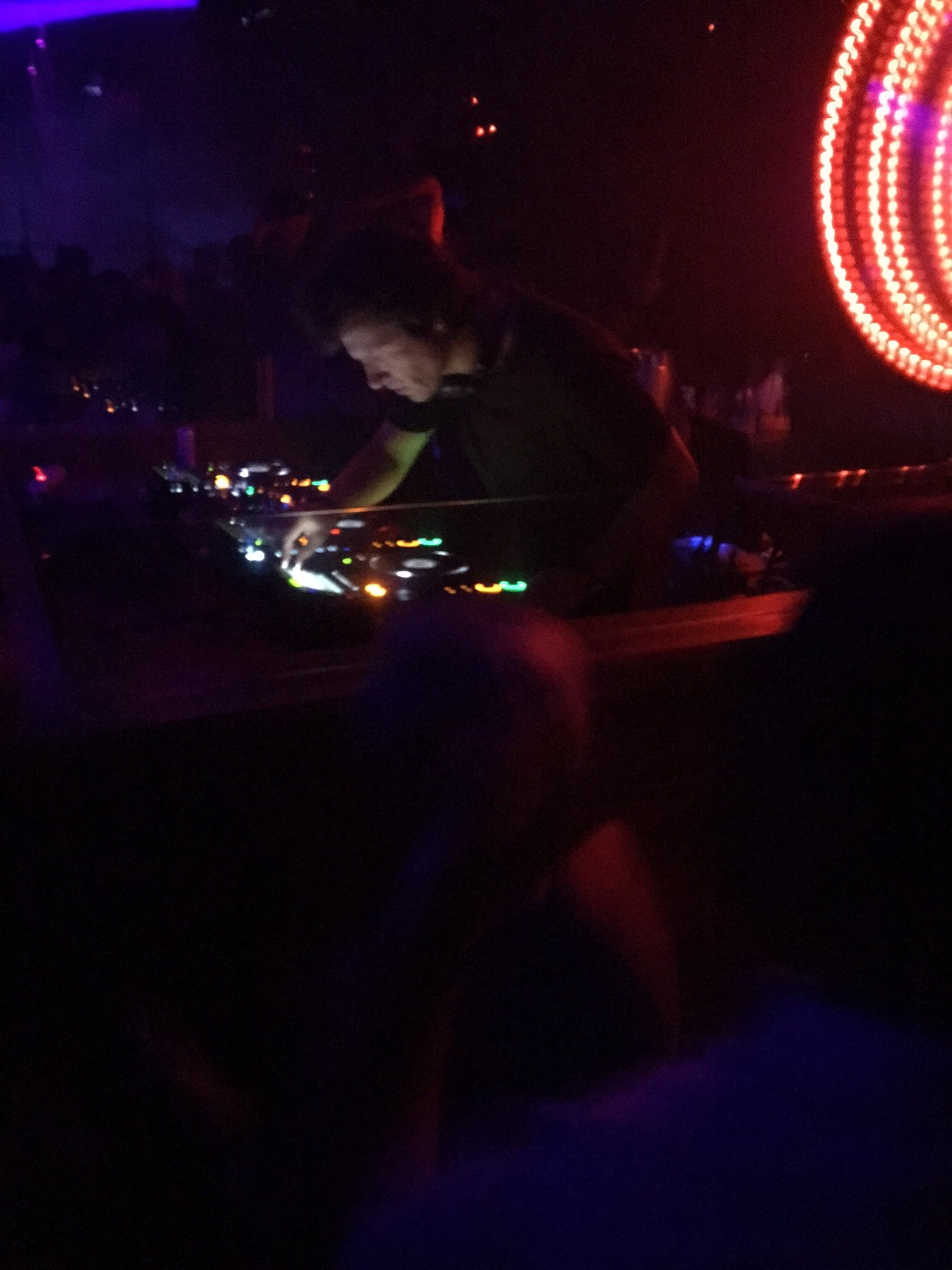 Hernan's soaring musicality